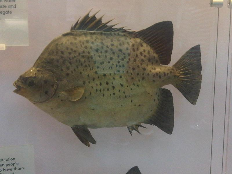 Spotted Scat (Scatophagus argus) at the Natural History Museum in London, England.